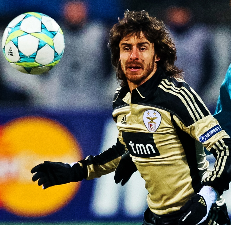 Pablo Aimar